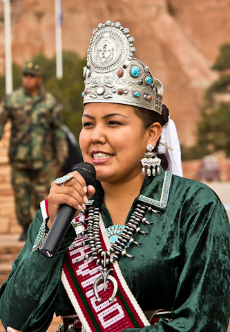 [2011-2012] Former Miss Navajo Nation, Crystalyne Curley, speaking at the 2011 Navajo Veterans Day Event in Window Rock, Arizona